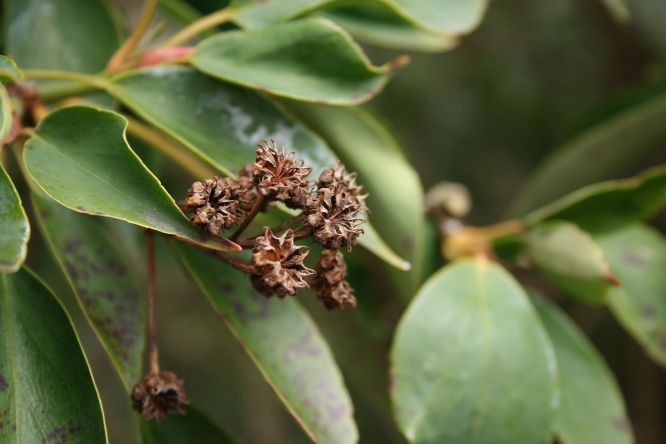 Trochodendron aralioides: Fruits (Århus Botanical Garden)